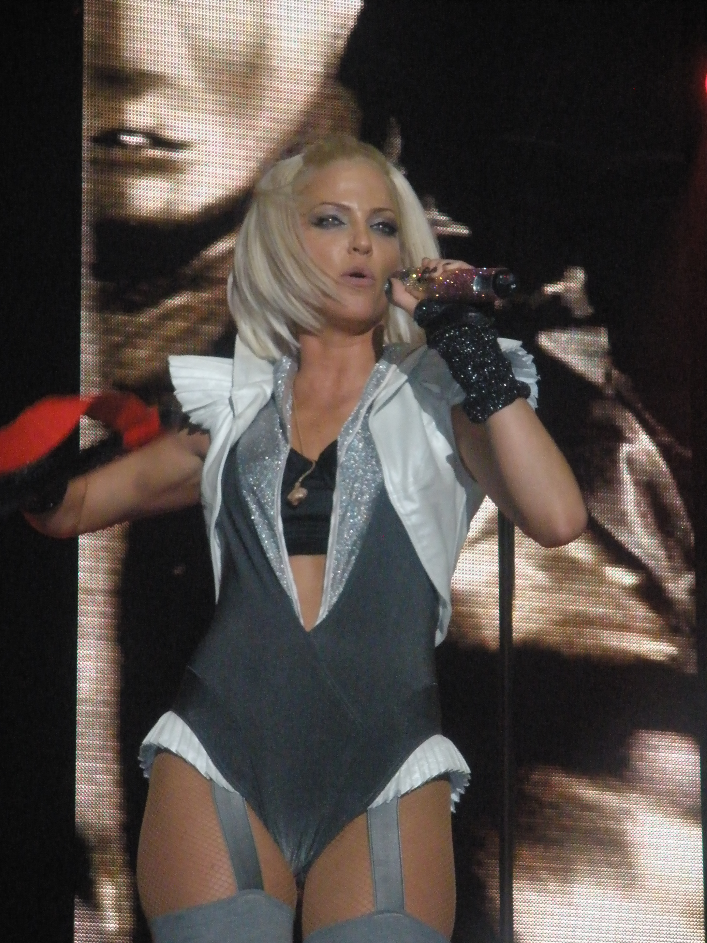 Sarah Harding of Girls Aloud performing in Manchester during 2009's Out of Control Tour